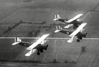 Douglas O-38B's of the 112th Observation Squadron, 37th Division, Ohio National Guard, flying over the countryside during annual training in 1936.